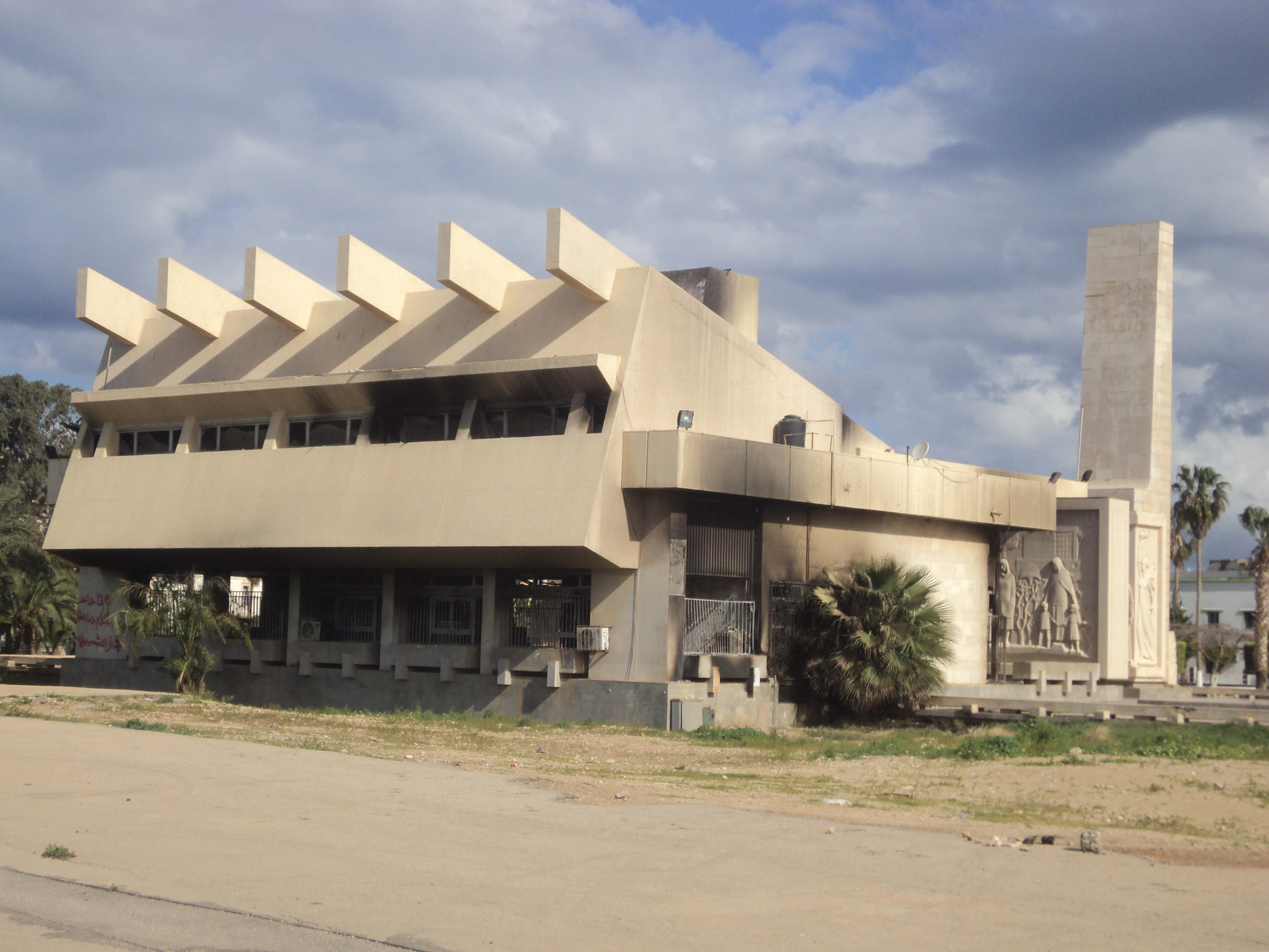 The Green Book center in Benghazi's downtown after fire.